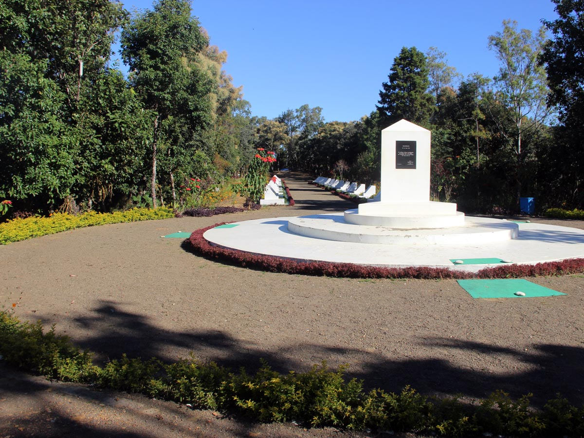 This is to commemorate the Mizo poets and writers.